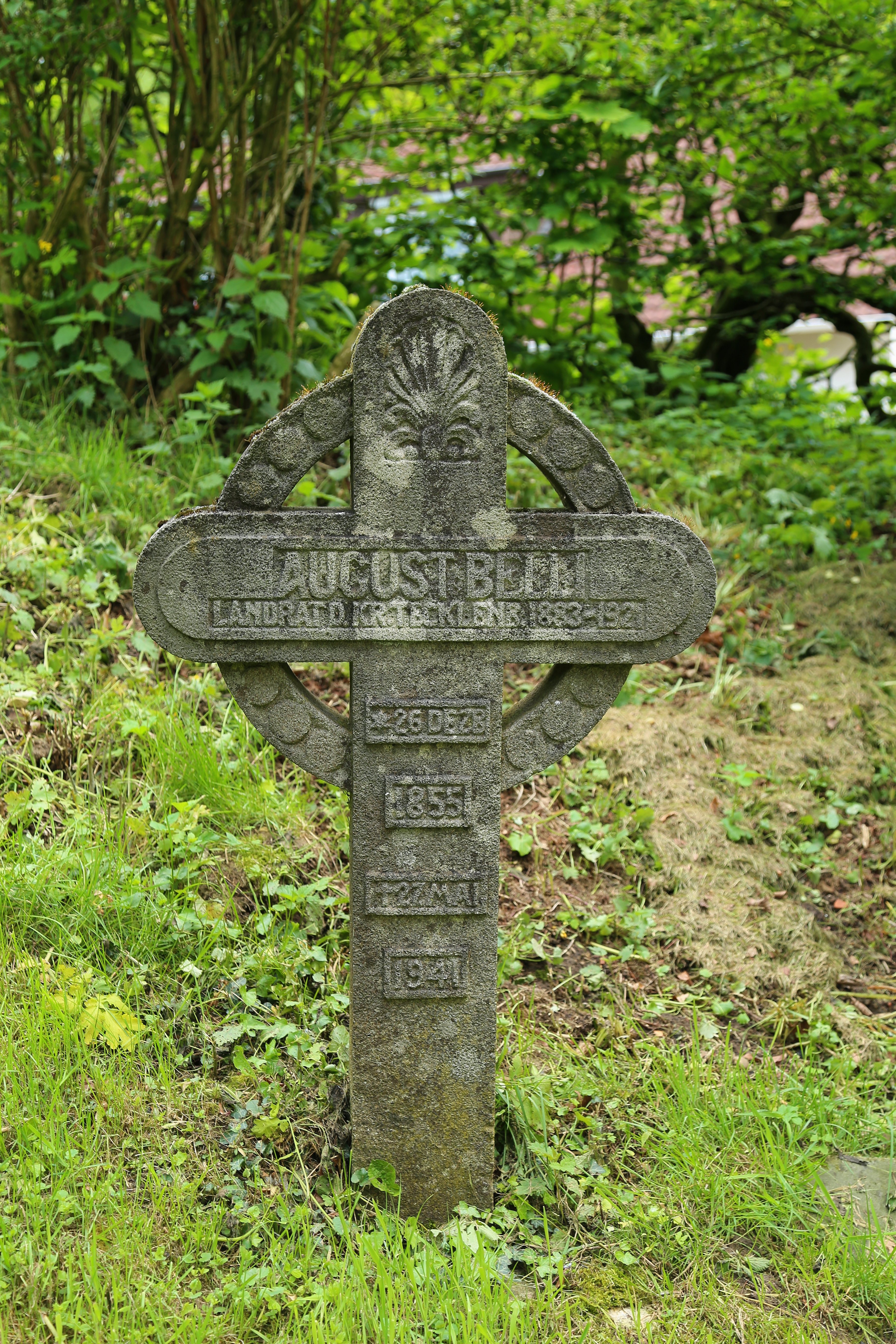 Grave cross for Landrat August Belli in the churchyard of the Protestant City Church (Evangelische Stadtkirche) of Tecklenburg, Kreis Steinfurt, North Rhine-Westphalia, Germany.